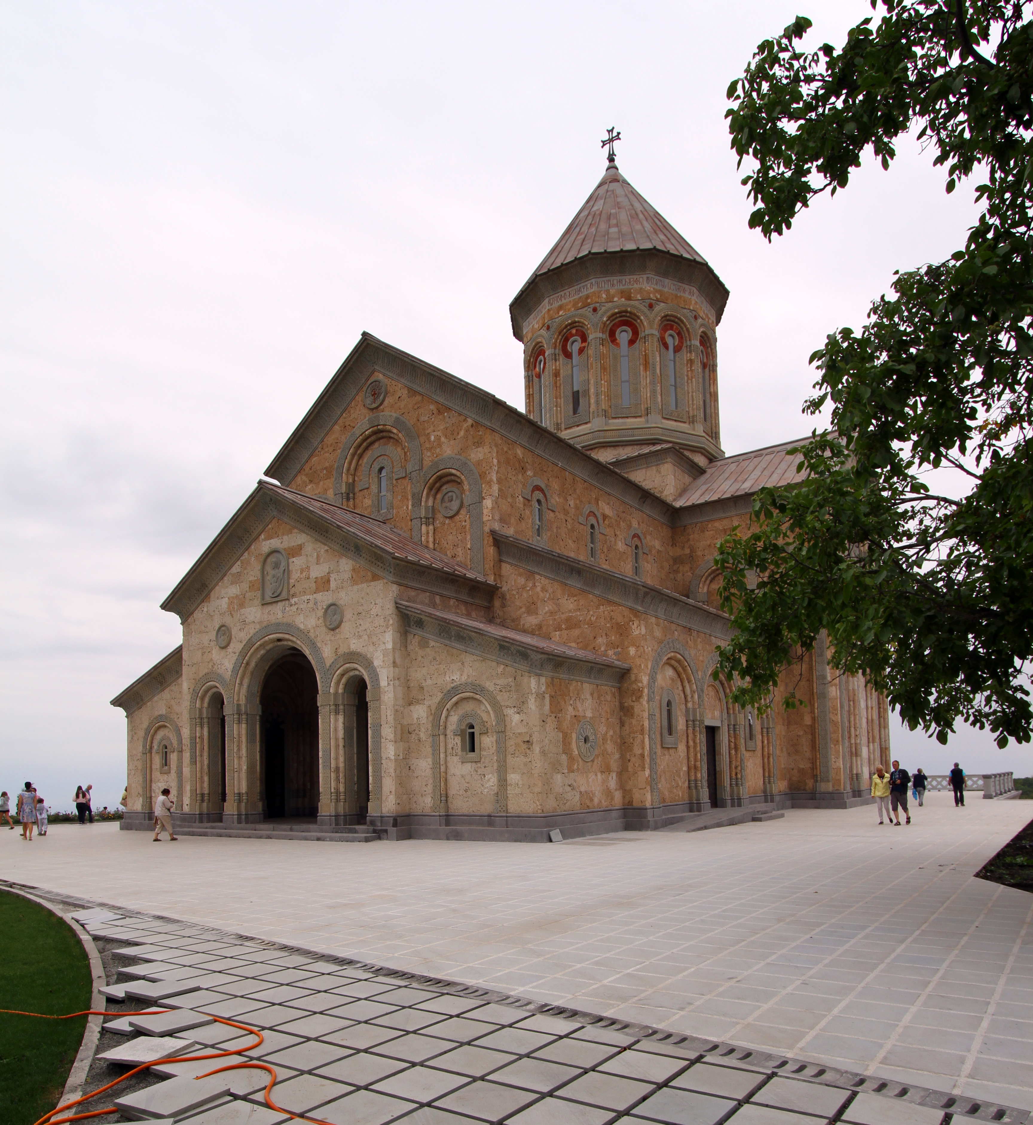 Bodbe Monastery, Sighnaghi